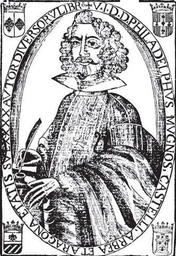 Filadelfo Mugnos, Sicilian historian